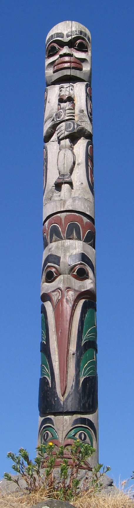 "Spirit of Lakwammen" from Songhees Point Park, Victoria, BC.